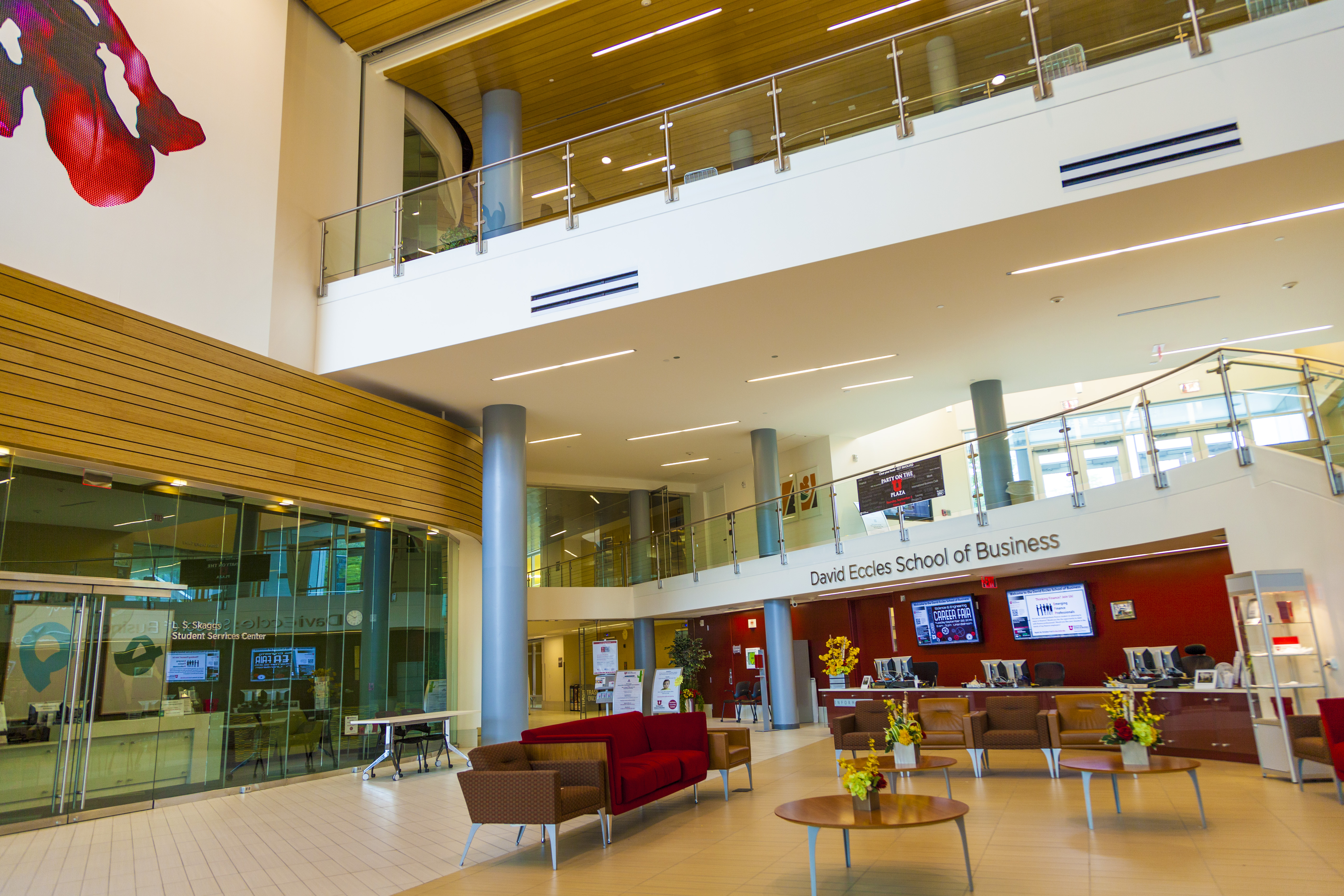 Interior of the Spencer Fox Eccles Business Building of the David Eccles School of Business at the University of Utah in Salt Lake City, Utah, USA.